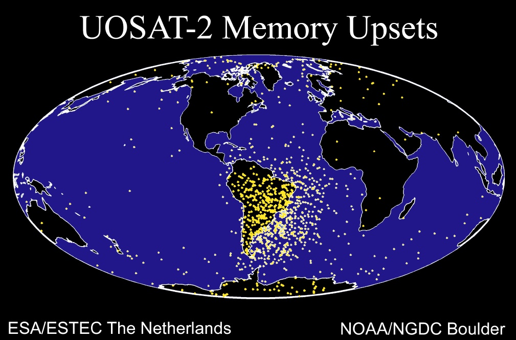 Computer failures detected onboard the UoSat satellite, depending on its location